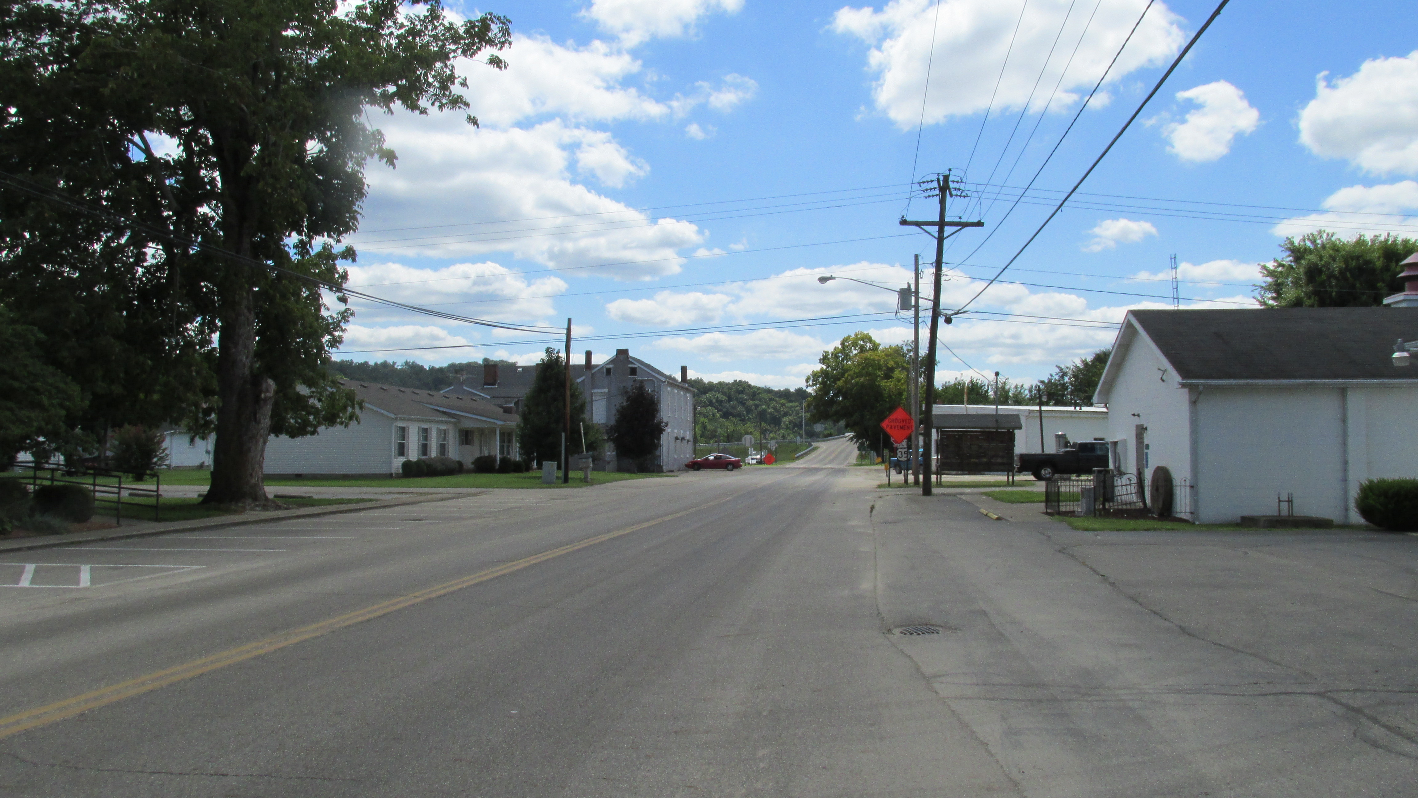 Looking south towards the intersection of Market Street and Main Street in Richmond Dale, Ohio.